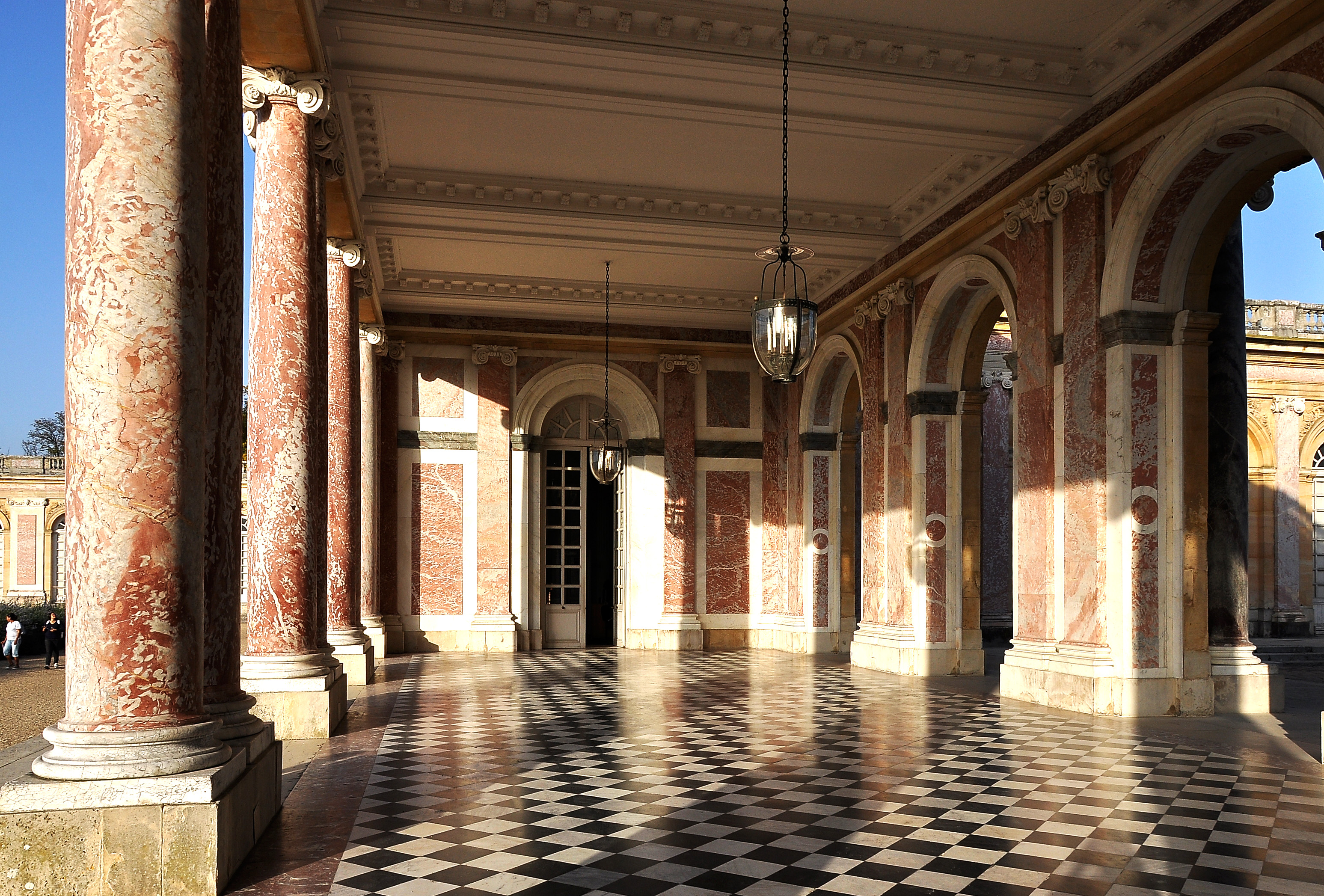 Columns in Grand Trianon at the Palace of Versailles, department of Yvelines in France.